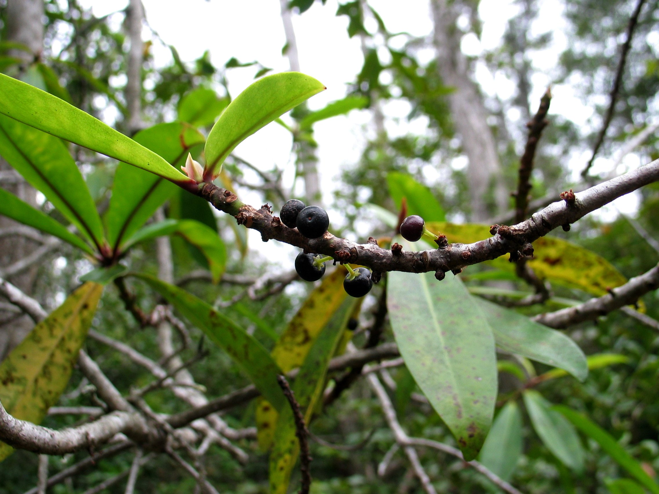 Kōlea lau nui Primulaceae Endemic to the Hawaiian Islands Manukā, Hawaiʻi Island Early Hawaiians used the strong wood for posts, gunwales for canoes, and beams in hale construction as well as to make anvils for beating kapa (tapa). The pinkish bark produces a red sap was used to make red dye and the wood charcoal to make black dye. The bark, leaves, and flowers of kōlea (Mysine spp.) were used medicinally to treat pāʻaoʻao (childhood disease, with physical weakening) and ʻea (thrush). NPH00002